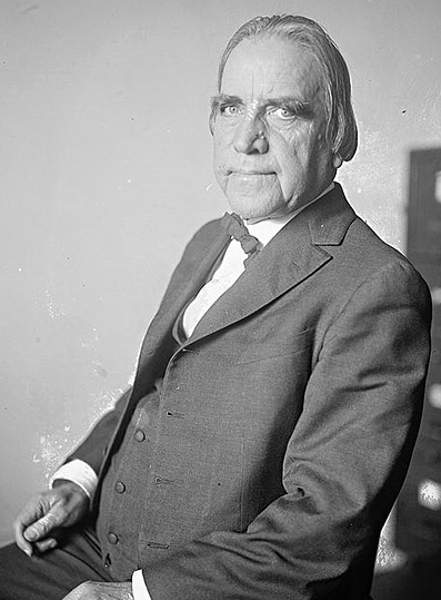 Edgar Howard, US Representative from Nebraska